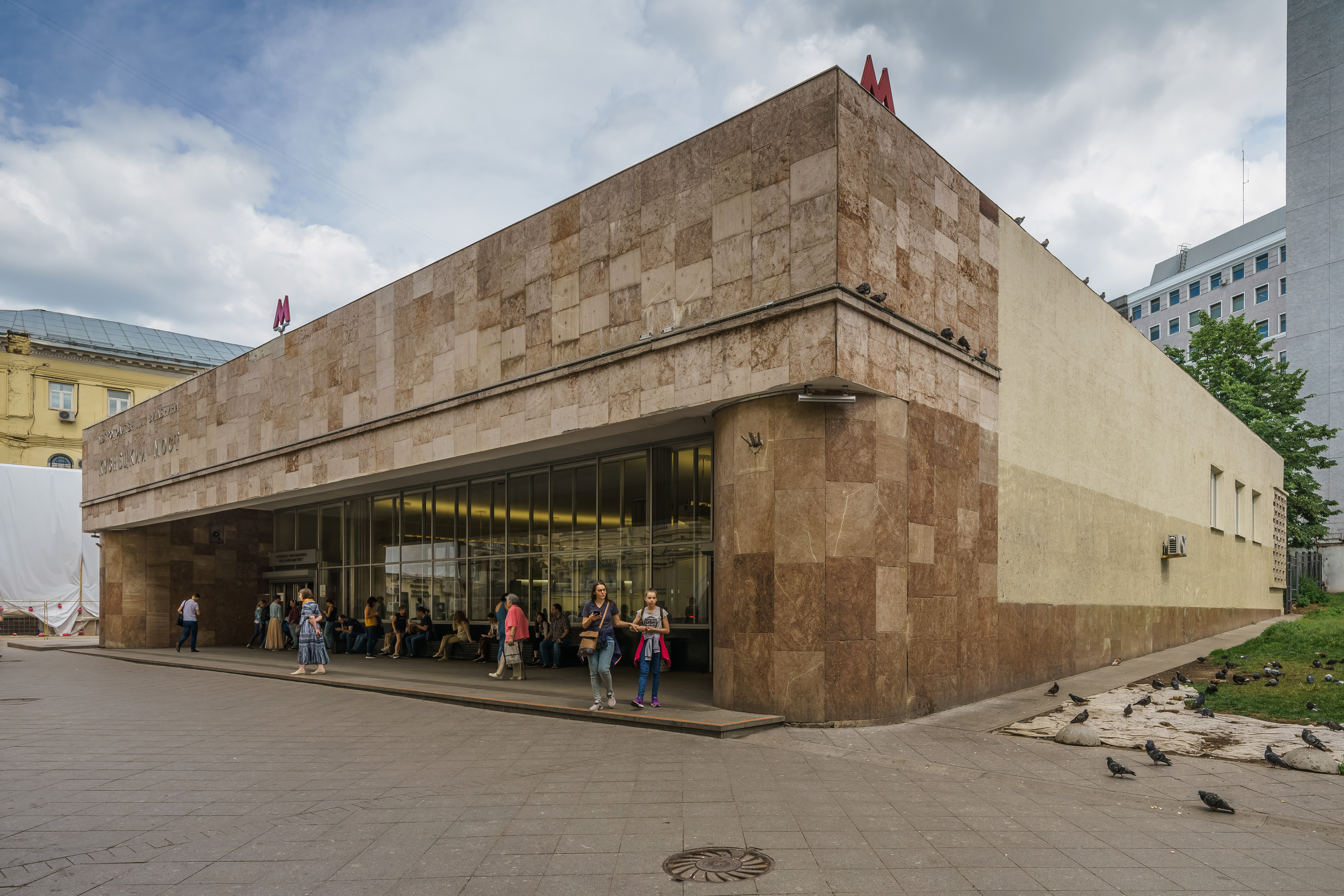 Entrance building of Kuznetsky Most metro station in Moscow, Russia